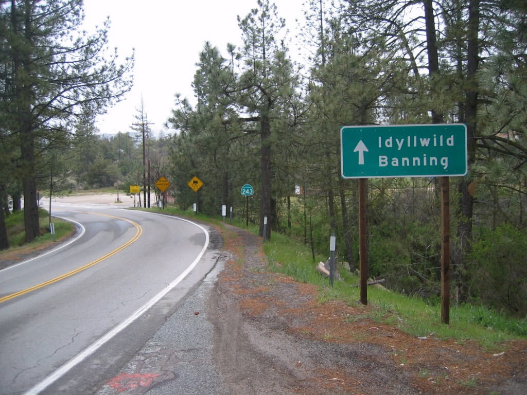 Looking north up CA-243 toward Idyllwild and Banning in Mountain Center, California